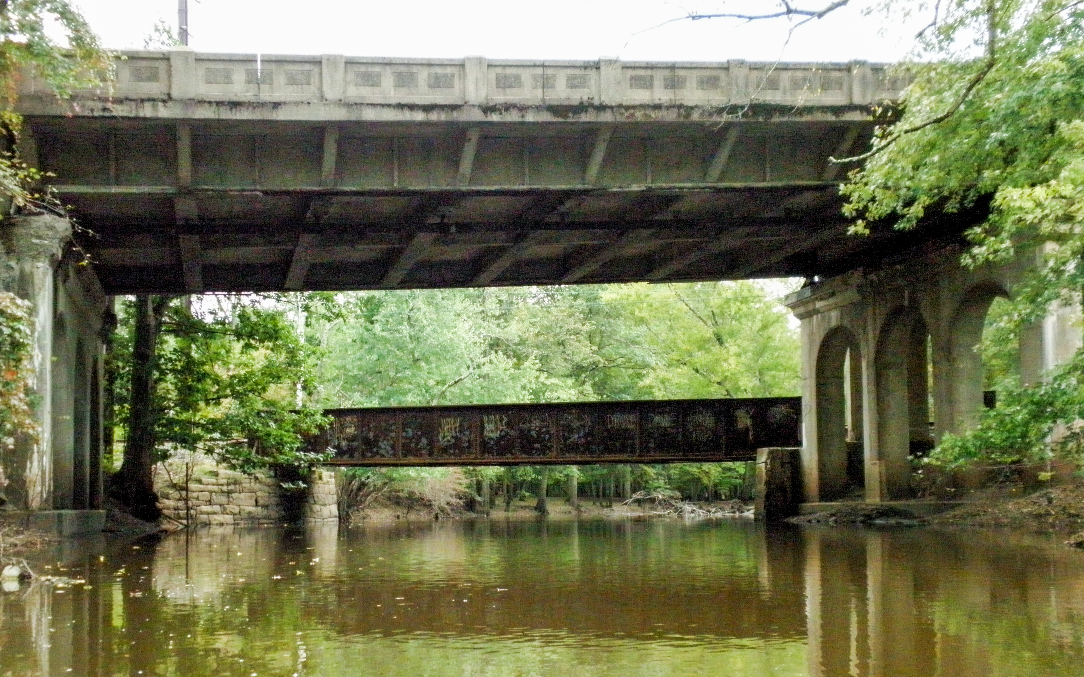 Valley Road Springfield Avenue Bridge over the Passaic River, Gillette - Berkeley Heights, New Jersey (looking south by kayak)